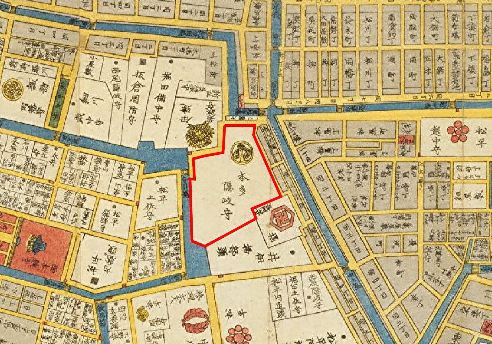 Residence Honda e clan at Edo